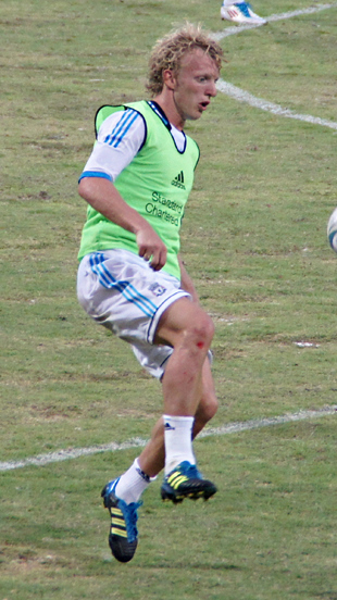 Dutch football player, Dirk Kuĳt, during Liverpool FC pre-season training in Singapore.